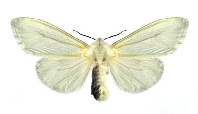 Hyphantria cunea female